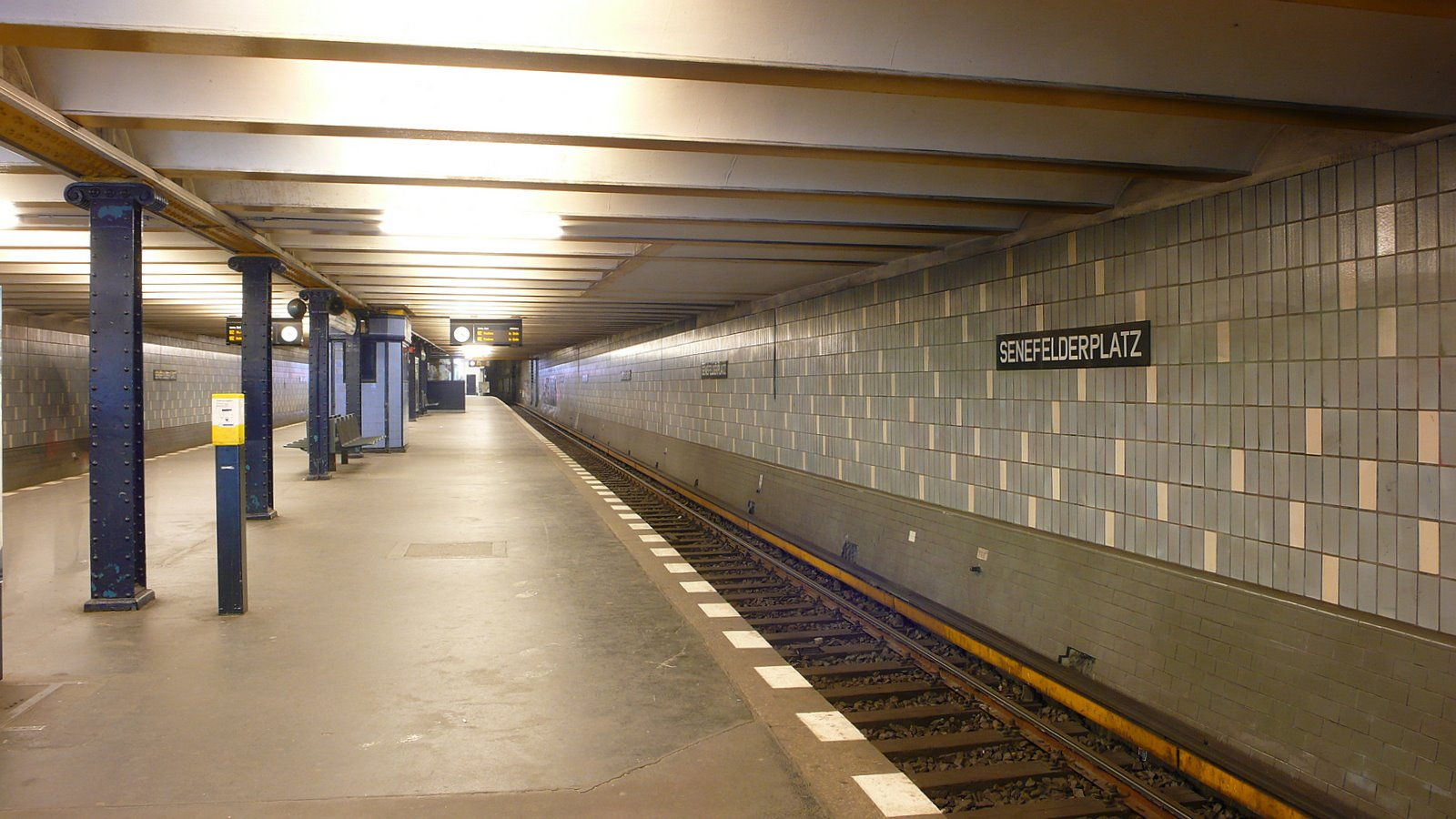 Senefelderplatz subway